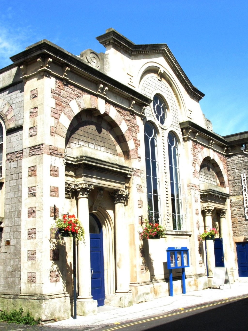 The Blakehay theatre, Wadham Street, Weston-super-Mare, Somerset, England; formerley Wadham Street Baptist Church. Architect Hans Price.